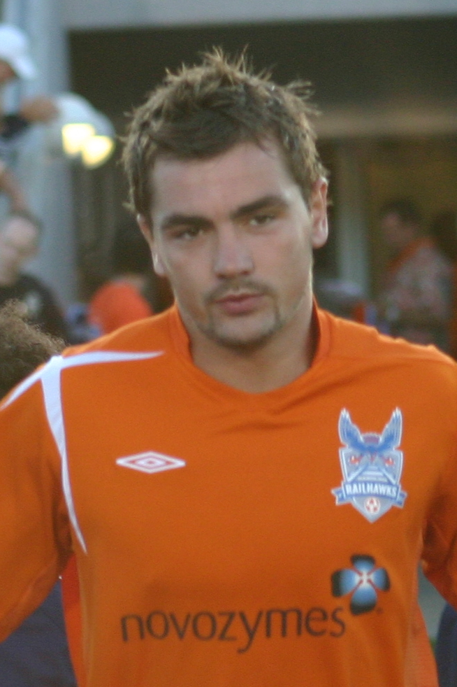 Jonny Steele - is a Northern Irish soccer player.